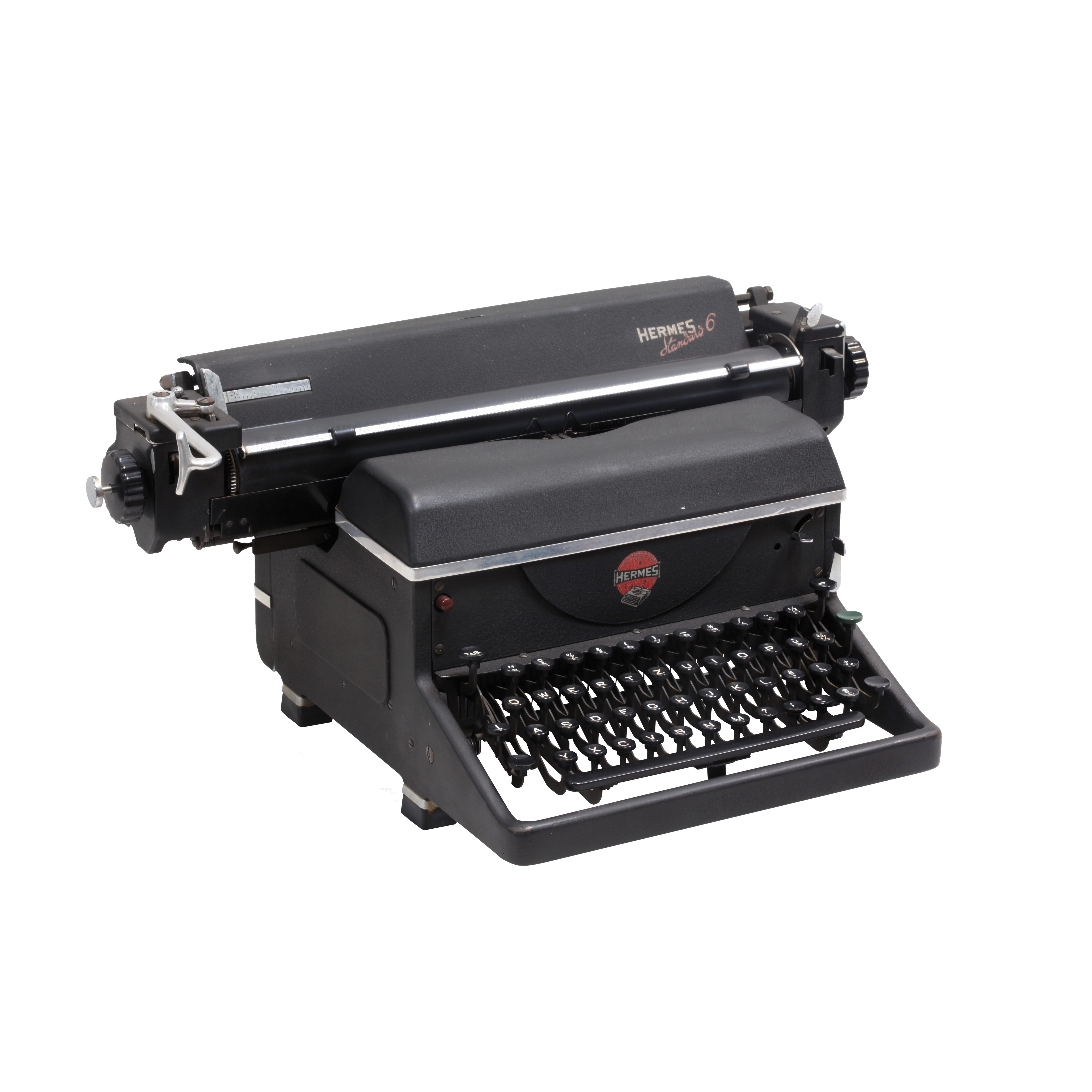 Paillard S.A. Hermes Standard 6 typewriter. On display at the Musée Bolo, EPFL, Lausanne.